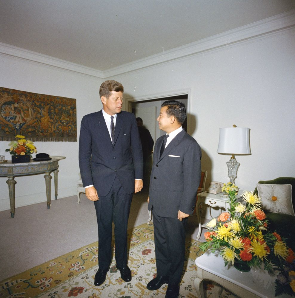 President John F. Kennedy meets with Prince Norodom Sihanouk of Cambodia in the President's Suite at the Carlyle Hotel, New York City, New York.